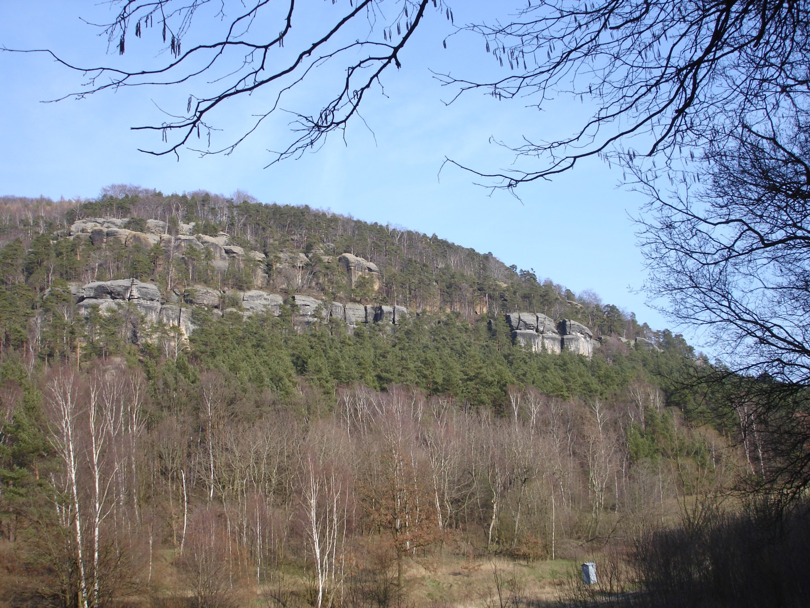 samdstone rocks at Vlhošť in Kokořínsko, Czech Republic